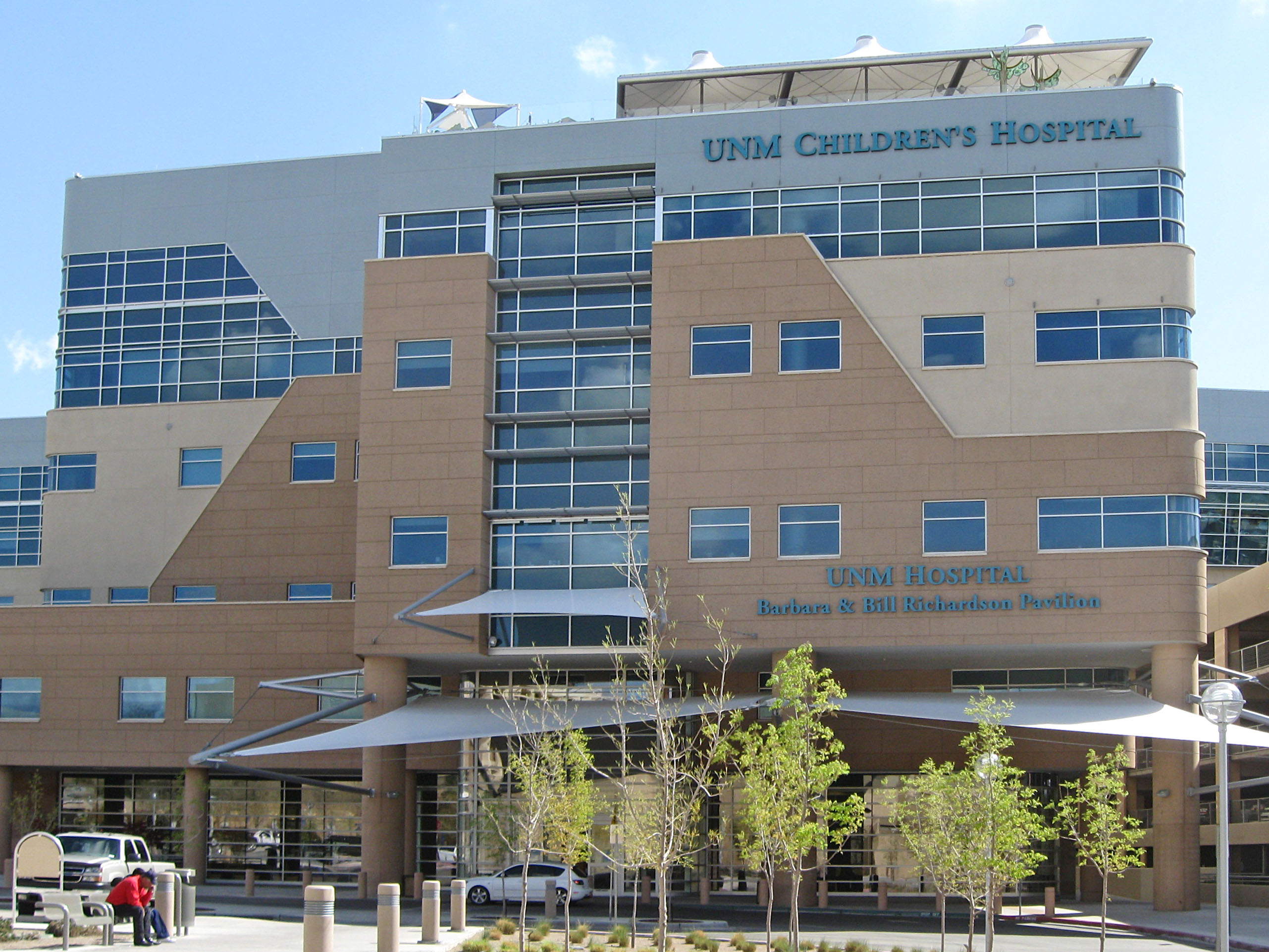 Barbara and Bill Richardson Pavilion at the University of New Mexico in Albuquerque. Located on the North Campus, immediately west of University Hospital and connect to it by a corridor.